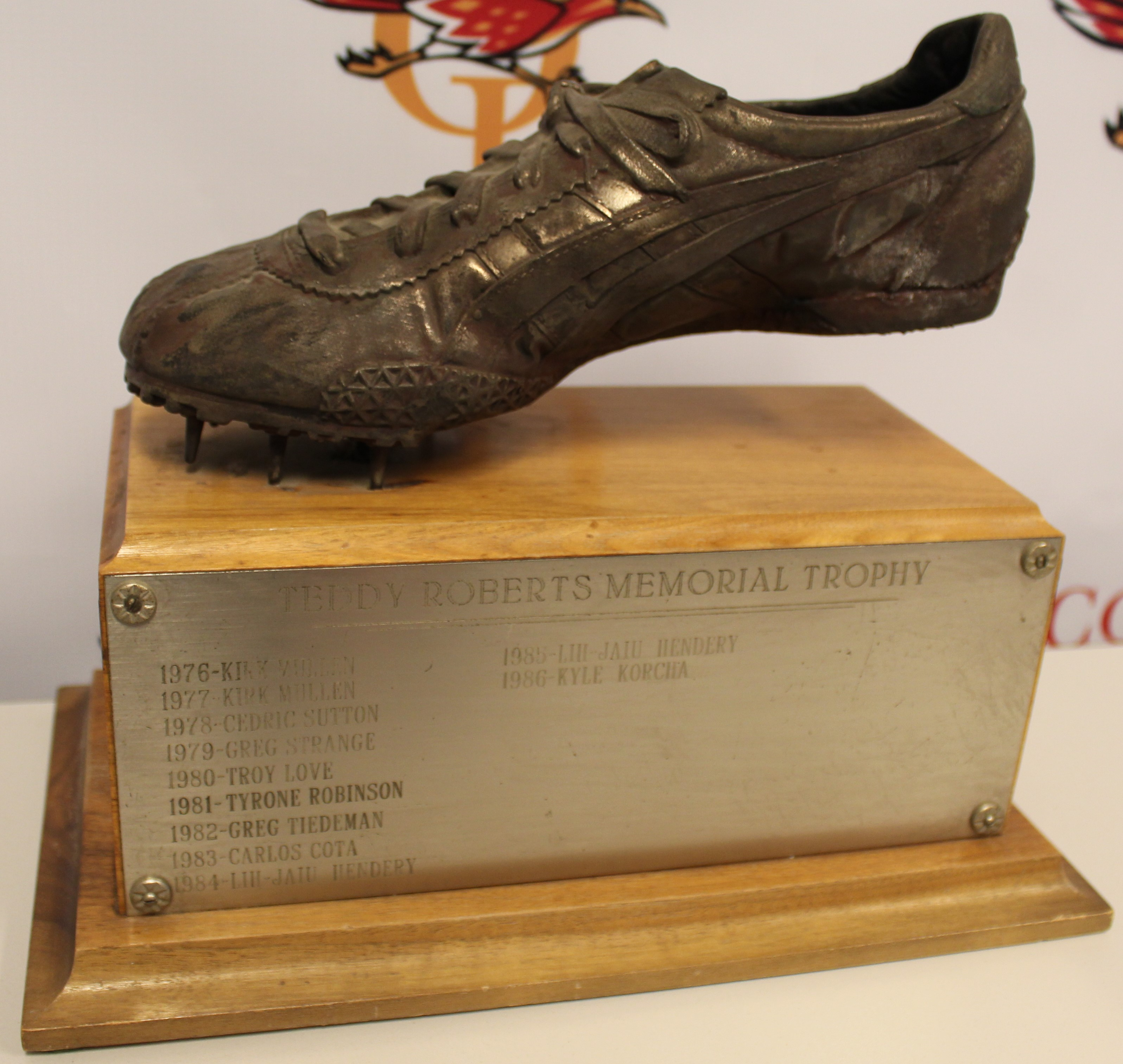 From 1976 to 1986, the Teddy Roberts Memorial Trophy was awarded to the Men’s Track & Field team MVP